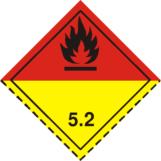 European Agreement concerning the International Carriage of Dangerous Goods by Road